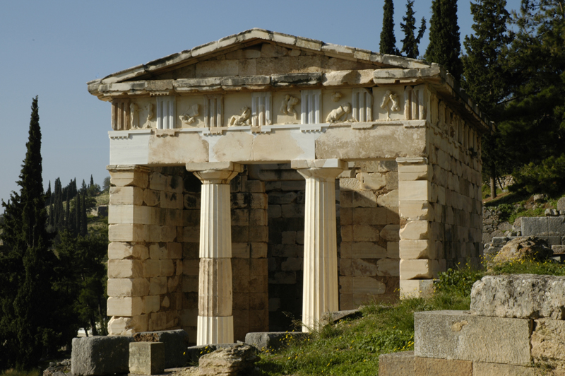 Metopes with sculptural decoration in the Doric frieze of the Treasury of the Athenians at Delphi.J. Matthew Harrington, personal digital image dosiero:Metopo 3.jpg